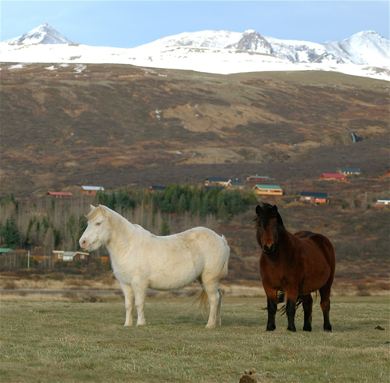 Icelandic horses